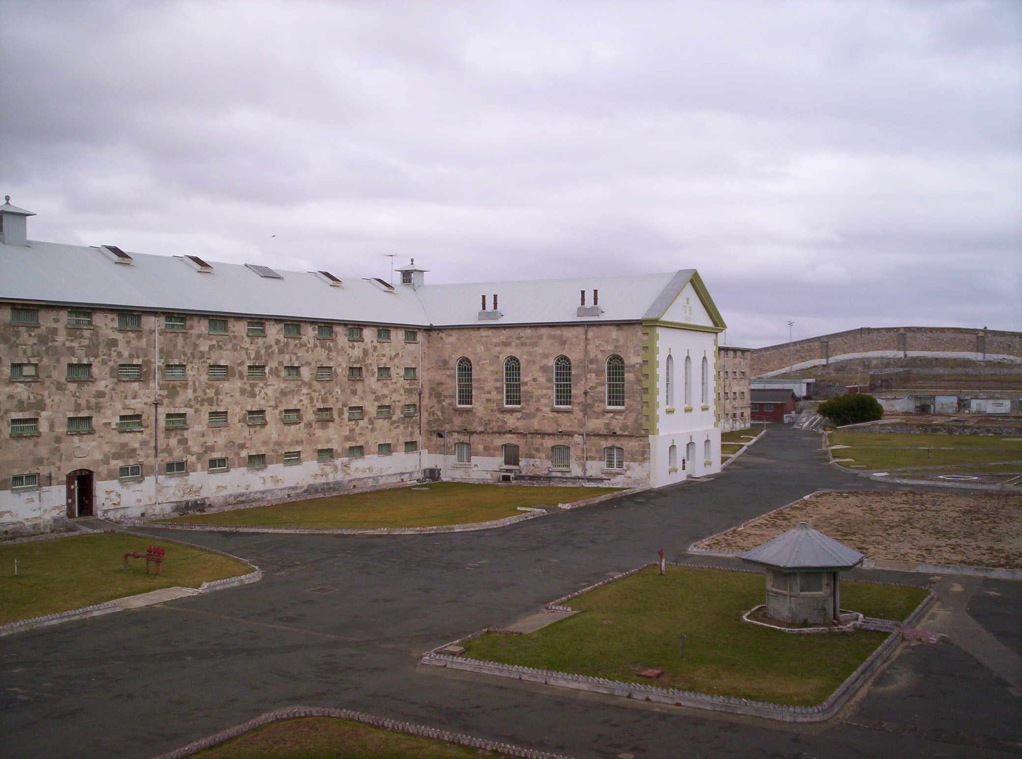 The main cellblock taken by ghostieguide dec 22 2005